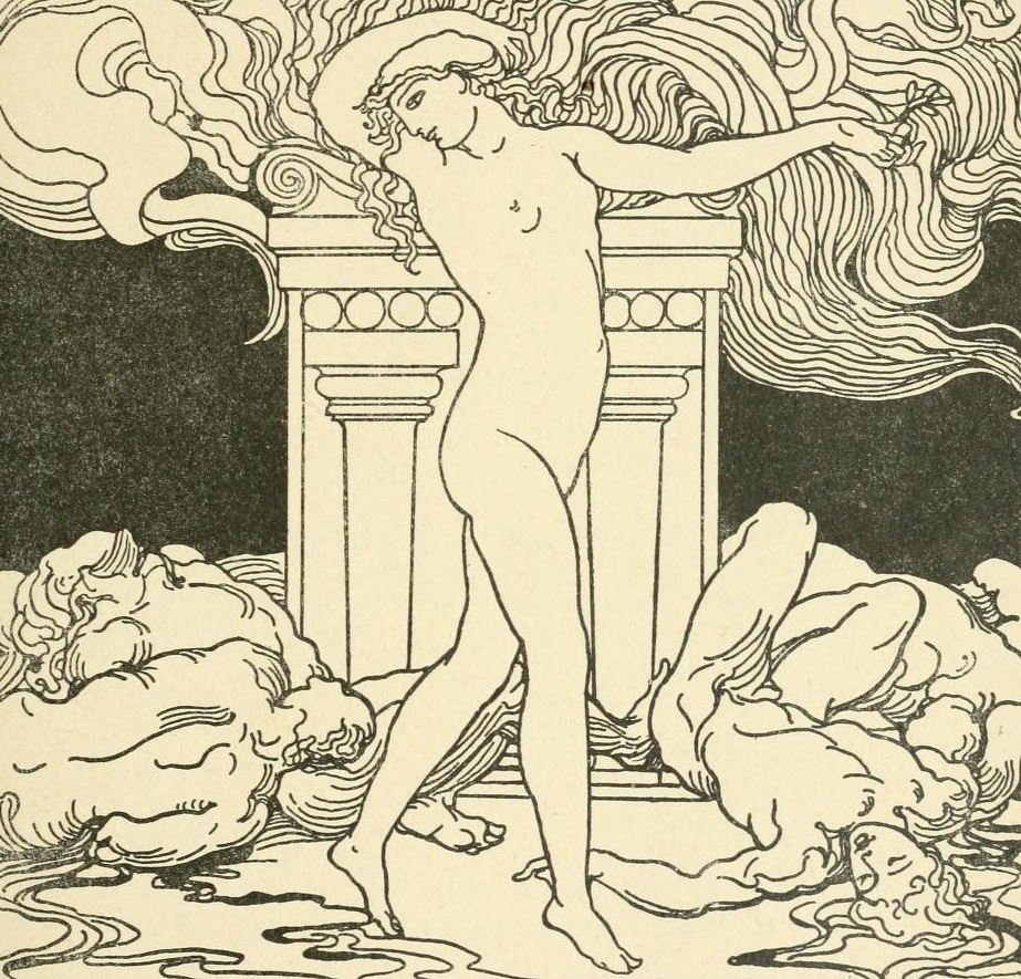 Illustration depicting Phaedra for Act II of Gabriele D'Annunzio's play Fedra